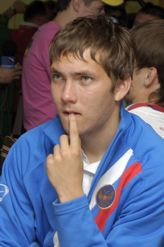 Alexey Rebko in Domodedovo airport after away match with Croatia.